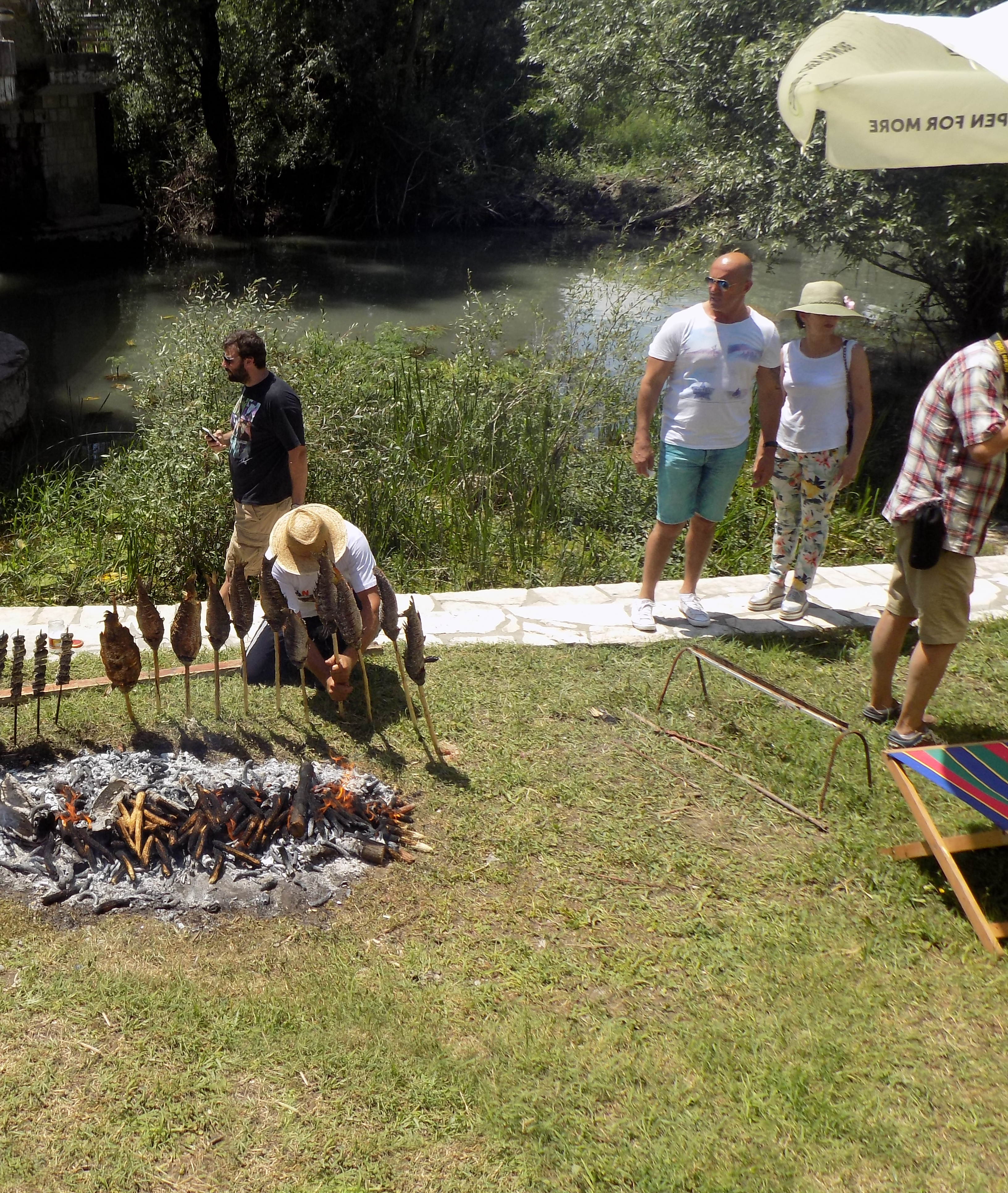 Preparation of smoked carp at the Carp Day Festival in Plavnica, Podgorica, Montenegro